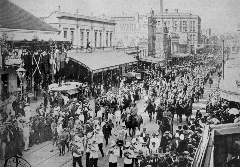 Parade of troops in Queen Street, Brisbane, March, 1900. Members of the 3rd Contingent, Queensland Mounted Infantry, parading in Queen Street, Brisbane, prior to departure for war in South Africa. They sailed on the troop ship 'Duke of Portland'. (Description supplied with photograph).